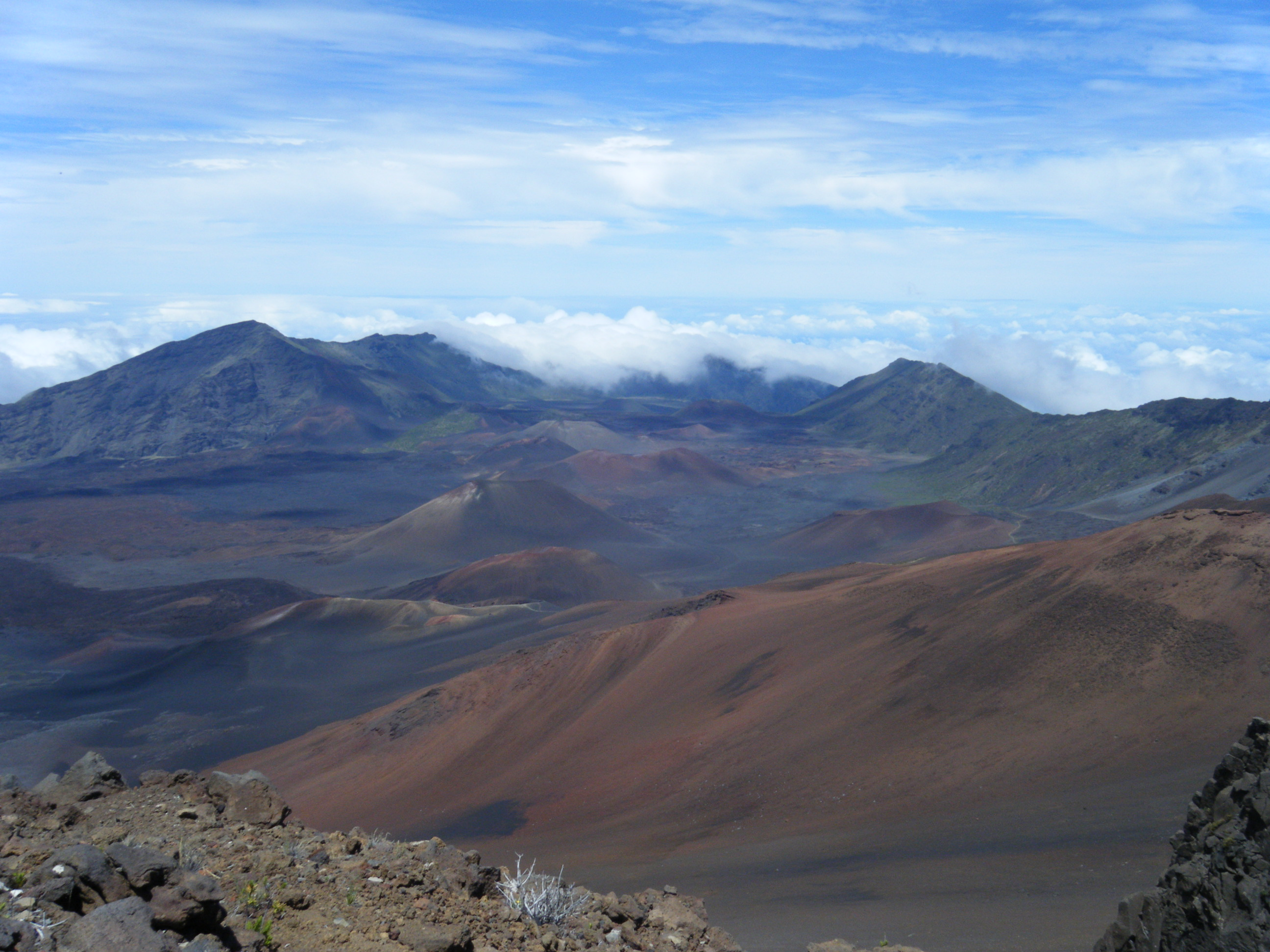 The Haleakala Crater — in Maui, Hawaii.